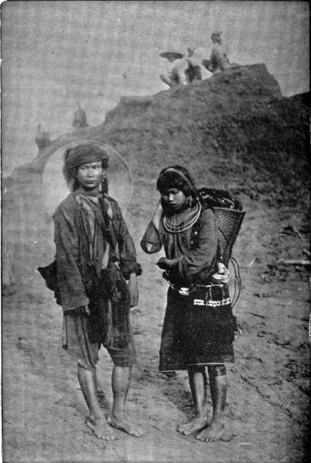 Kachins